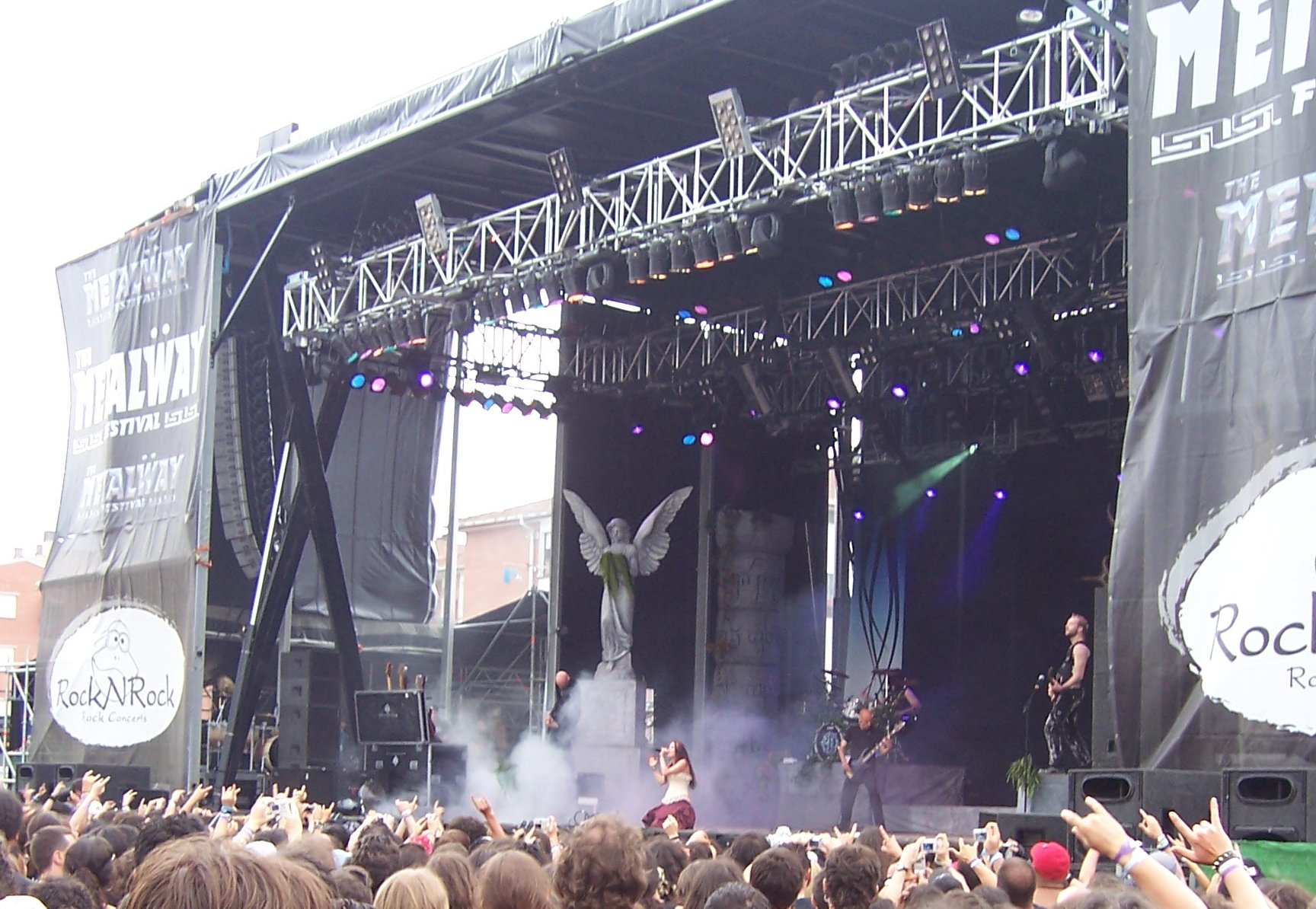 Within Temptation in Metalway Festival 2006 of Gernika